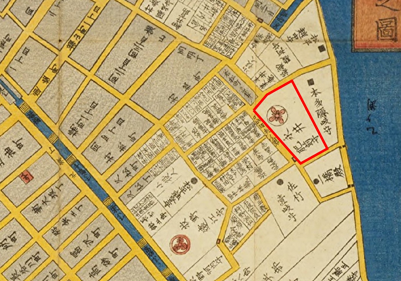 Residence of Nagai Kanô clan at Edo